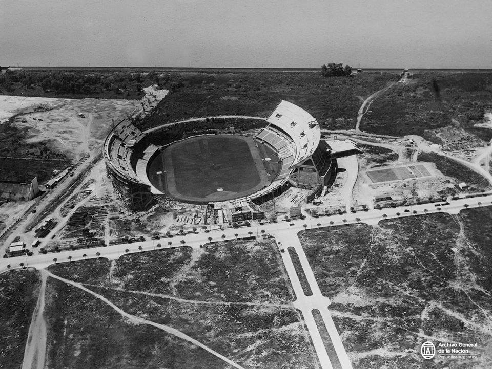 Photograph taken before the stadium inauguration in 1938. The San Martín and Belgrano stands were built and the Centenario stand was under construction.